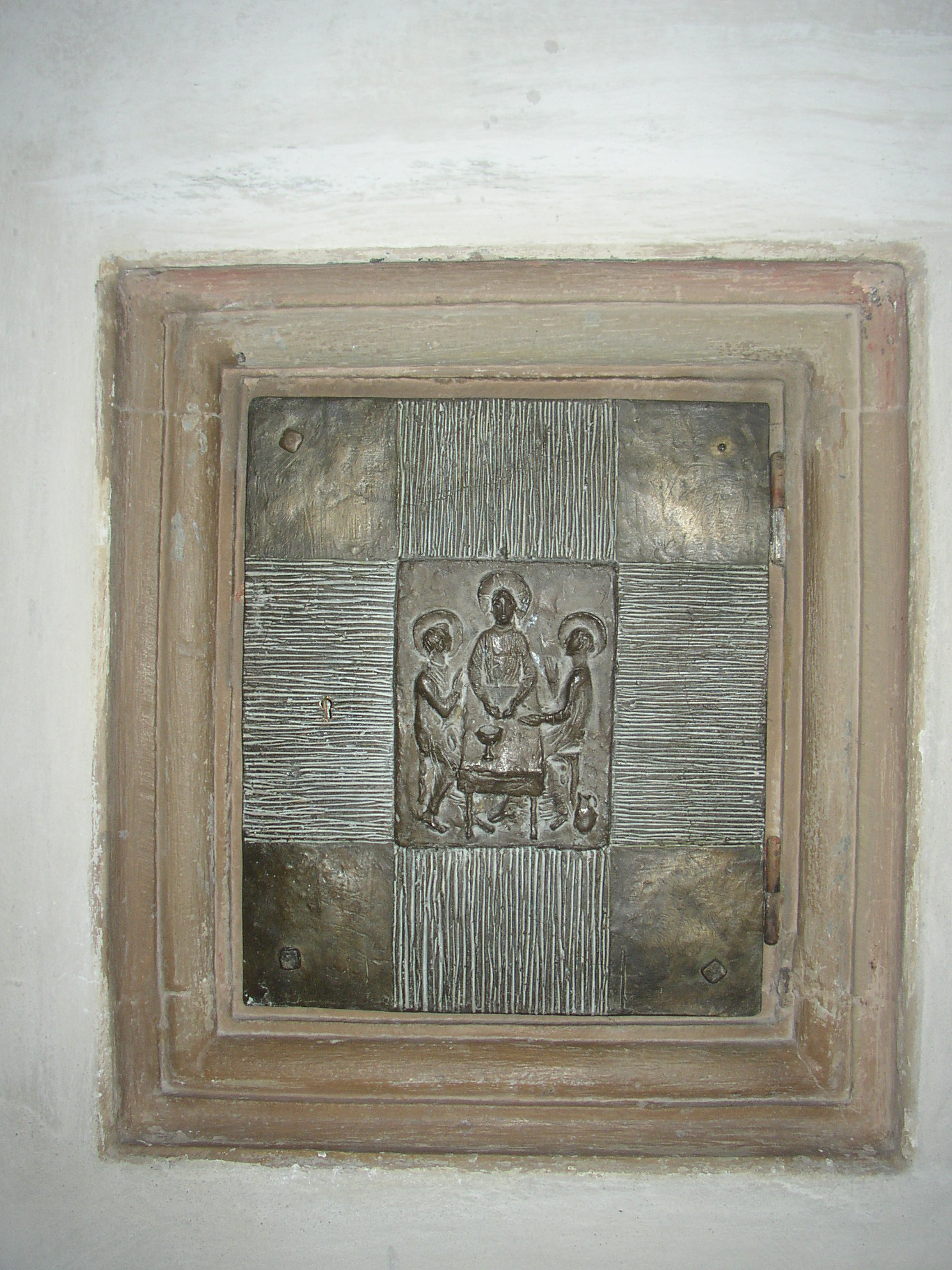 sacrement alcove in St. Johannes church in Halle (Westfalen), county of Gütersloh, Germany